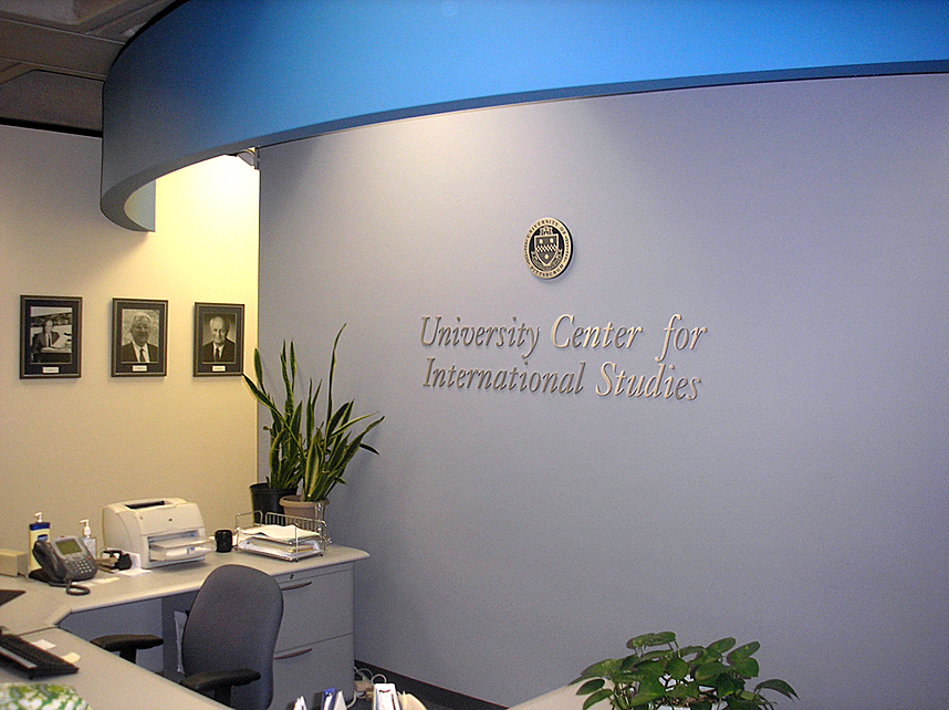 Reception desk at the offices of University of Pittsburgh Center for International Studies